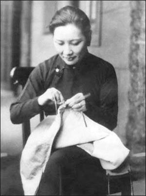 Soong May-ling stitching uniform for National Revolutionary Army soldiers.